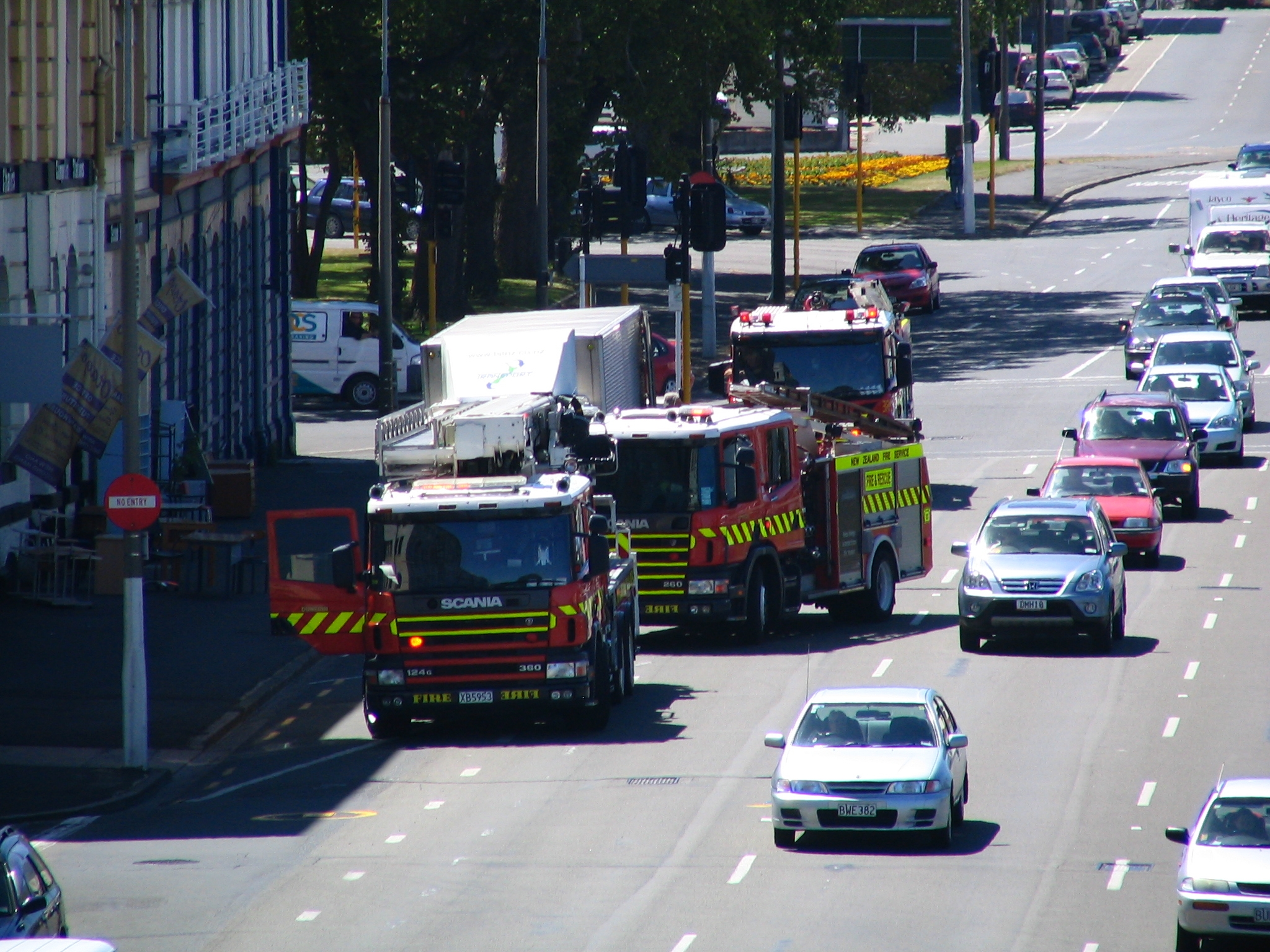 Three Scania fire engines from the Dunedin City station of the New Zealand Fire Service attending a job on Cumberland Street, from the Cumberland Street Overbridge.